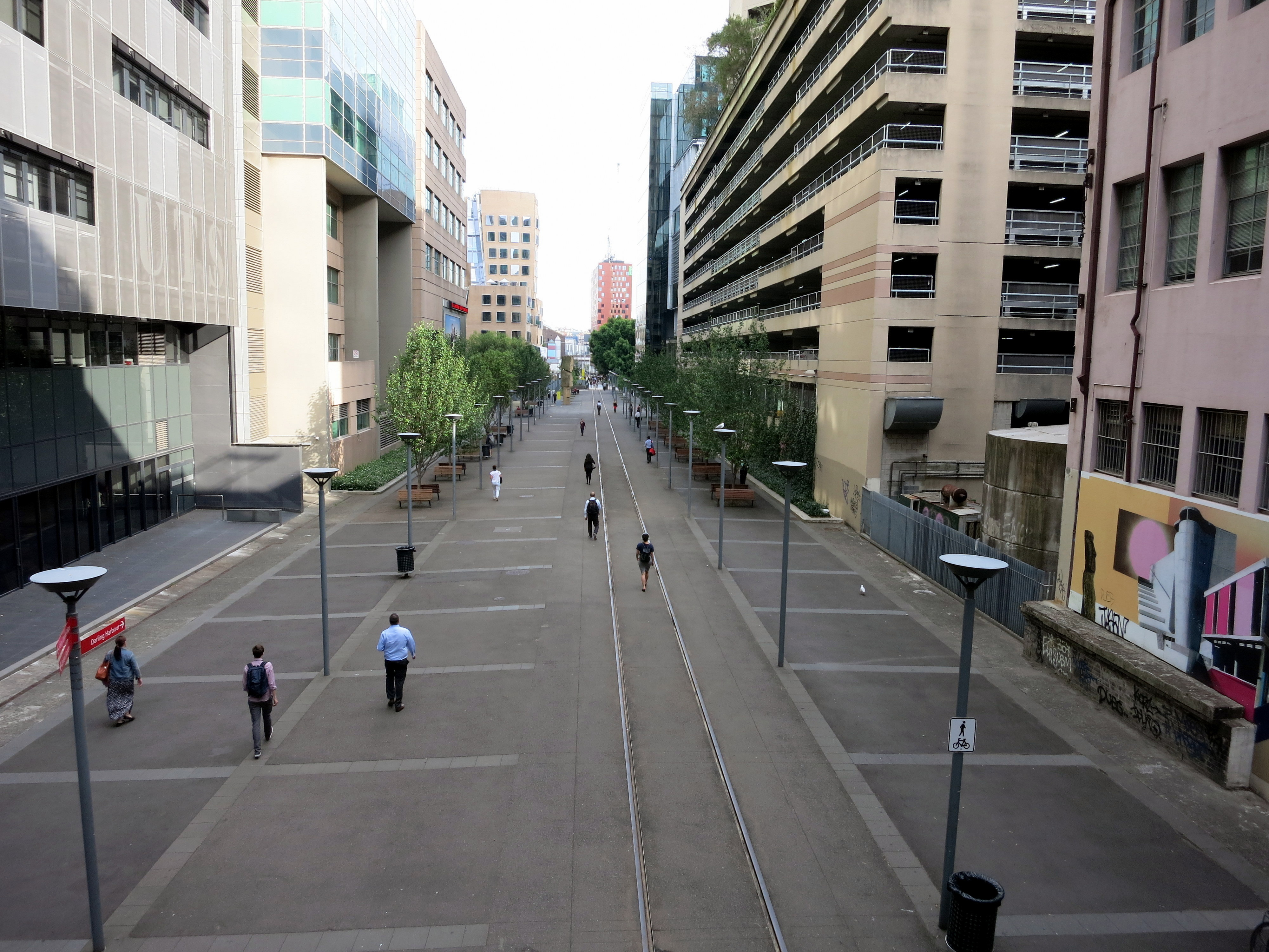 North-west view of the Goods Line, from the raised walkway near Broadway